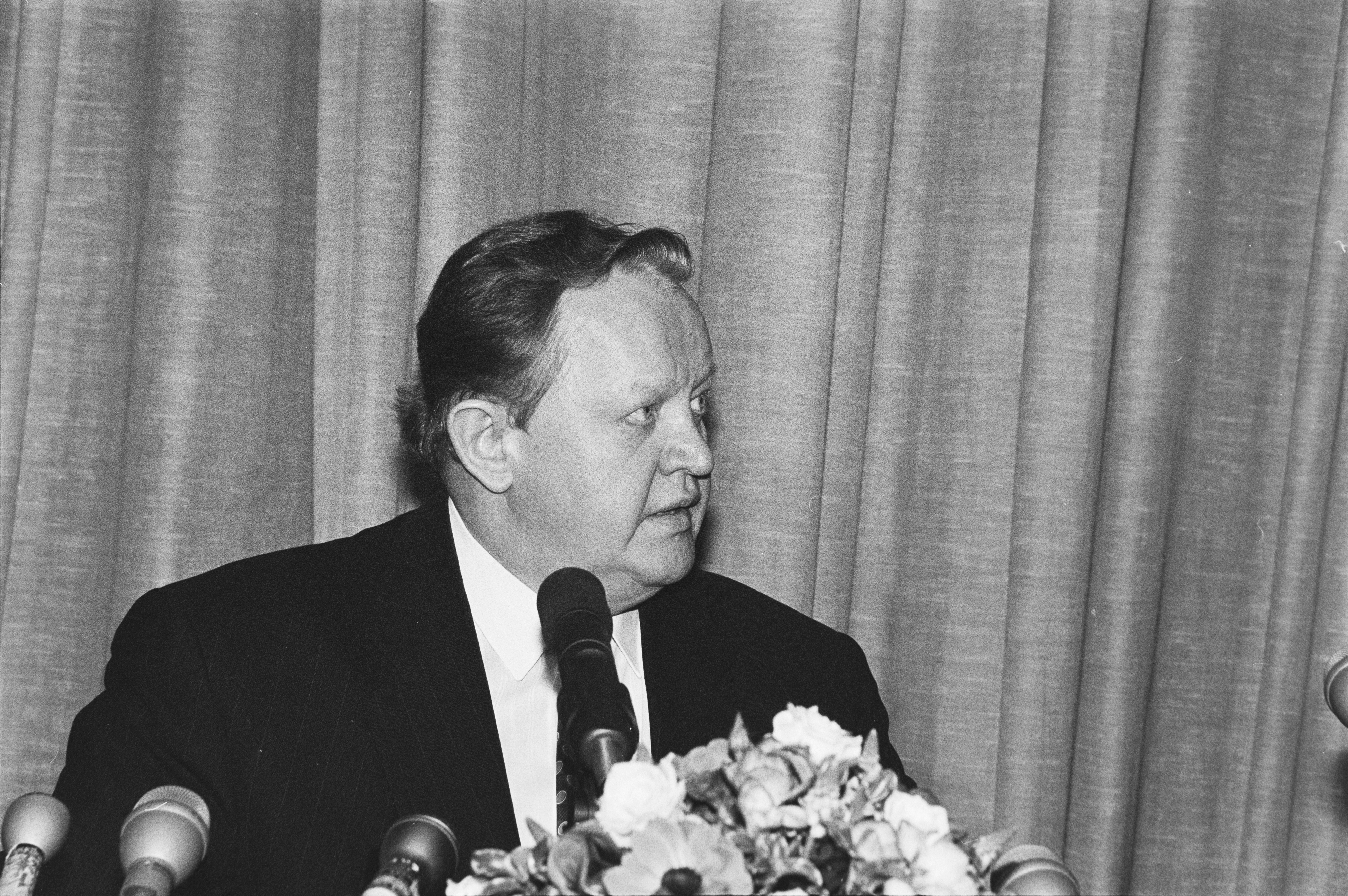 Photograph of the presidential candidate Martti Ahtisaari at a press conference in Hotelli Presidentti, Helsinki.